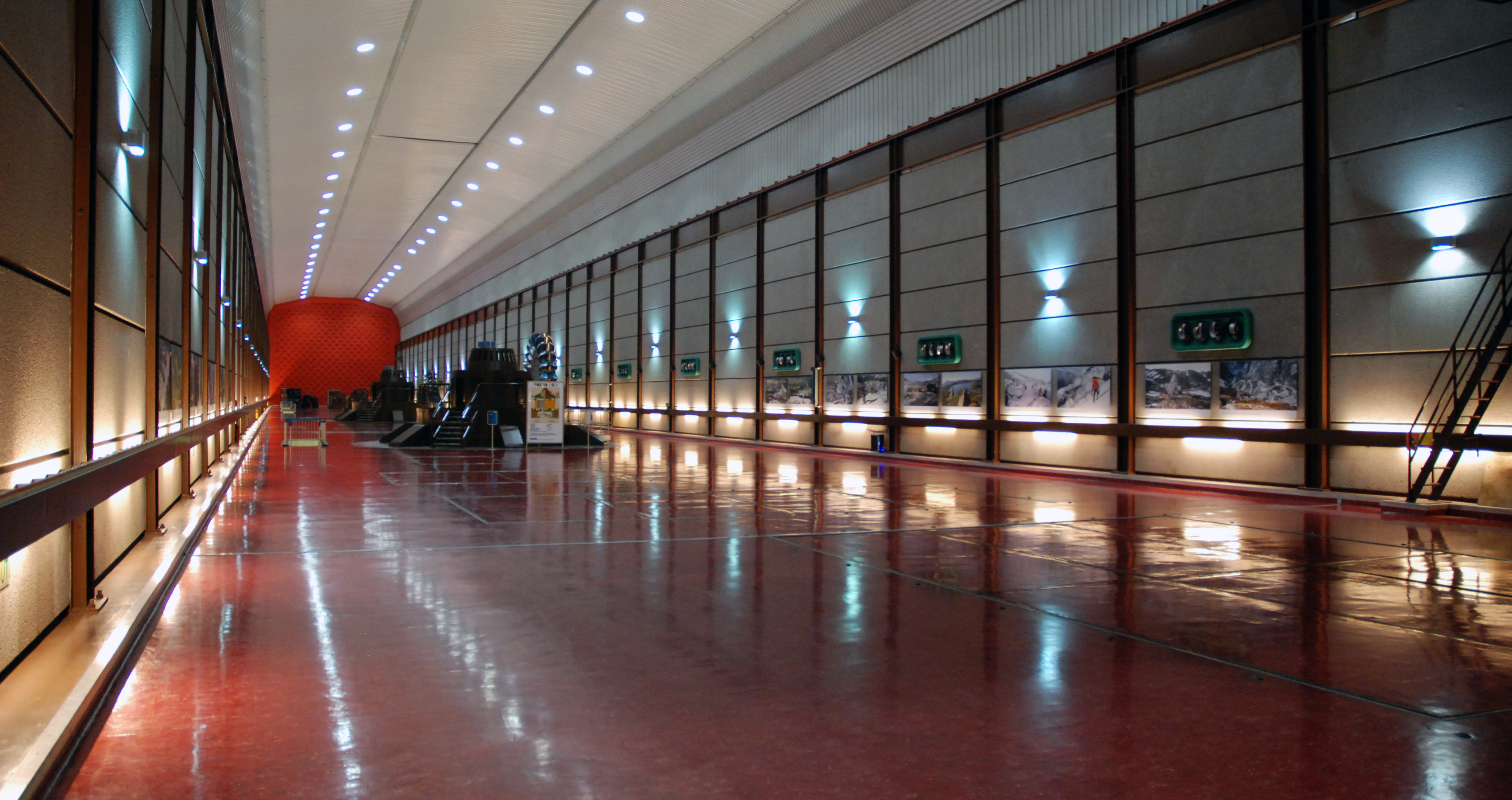 Inside Sima power plant in Eidfjord, Norway.